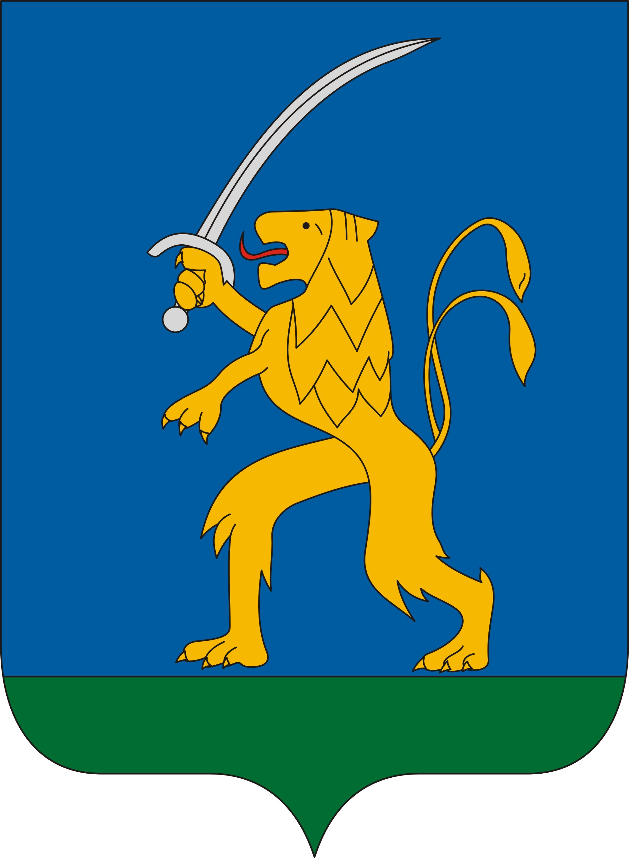 Coat of arms of Homokbödöge, Hungary